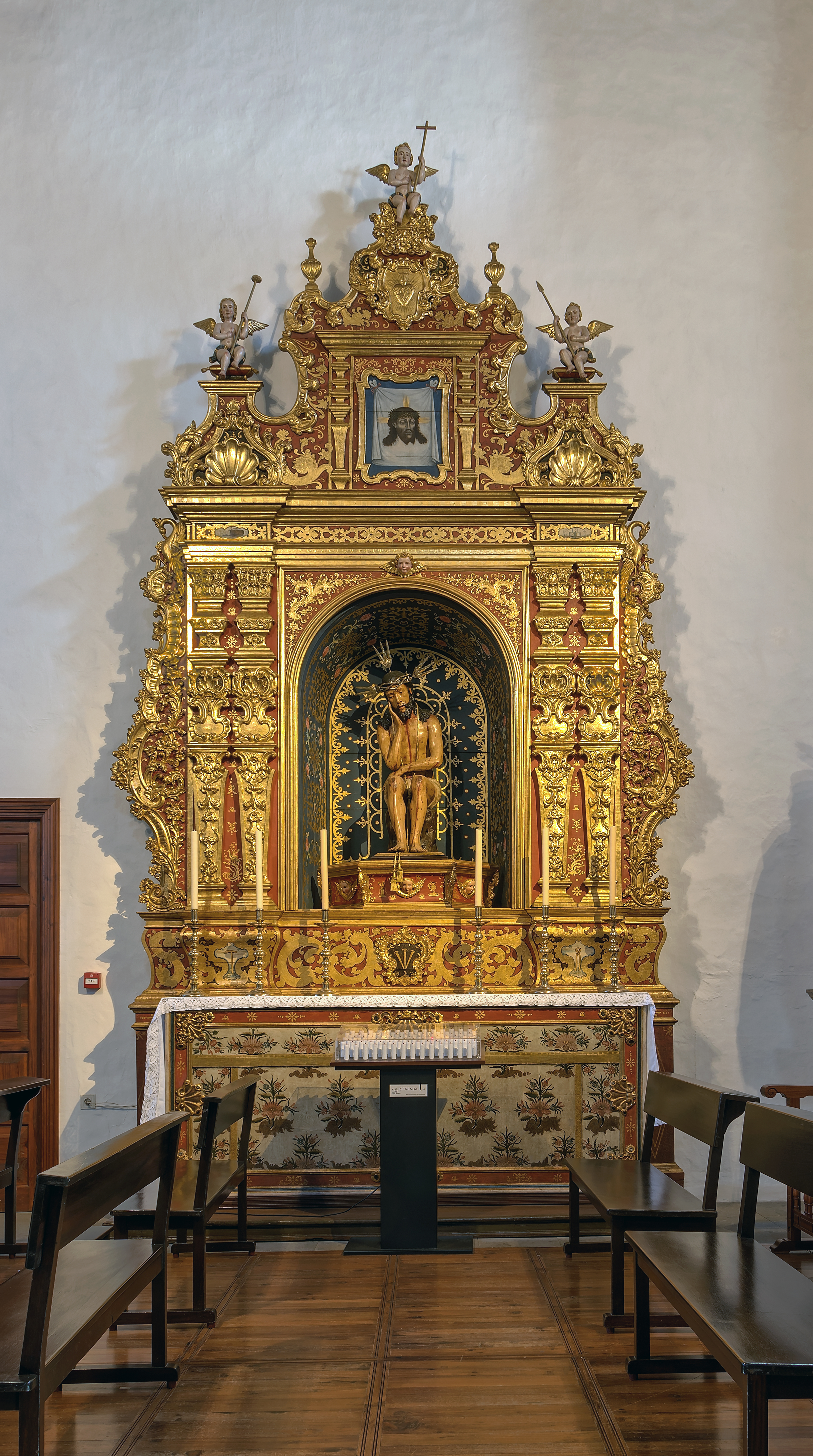 Capilla de Montserrat, Iglesia de San Francisco, Santa Cruz de La Palma, La Palma, Canary Islands, Spain.